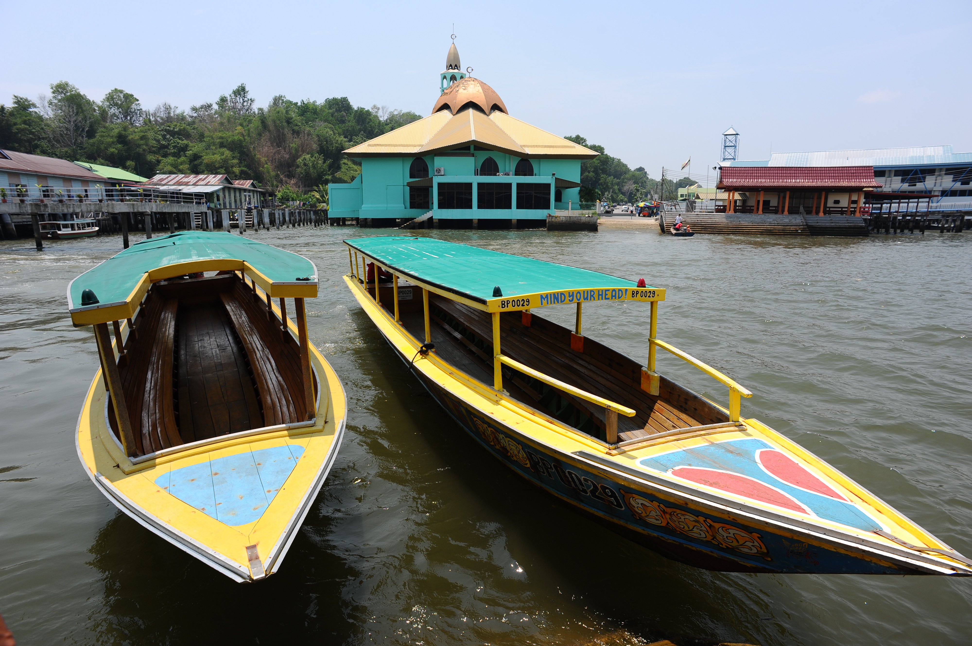 Kampong Ayer, Water Village, Mosque. Brunei, Southeast Asia.